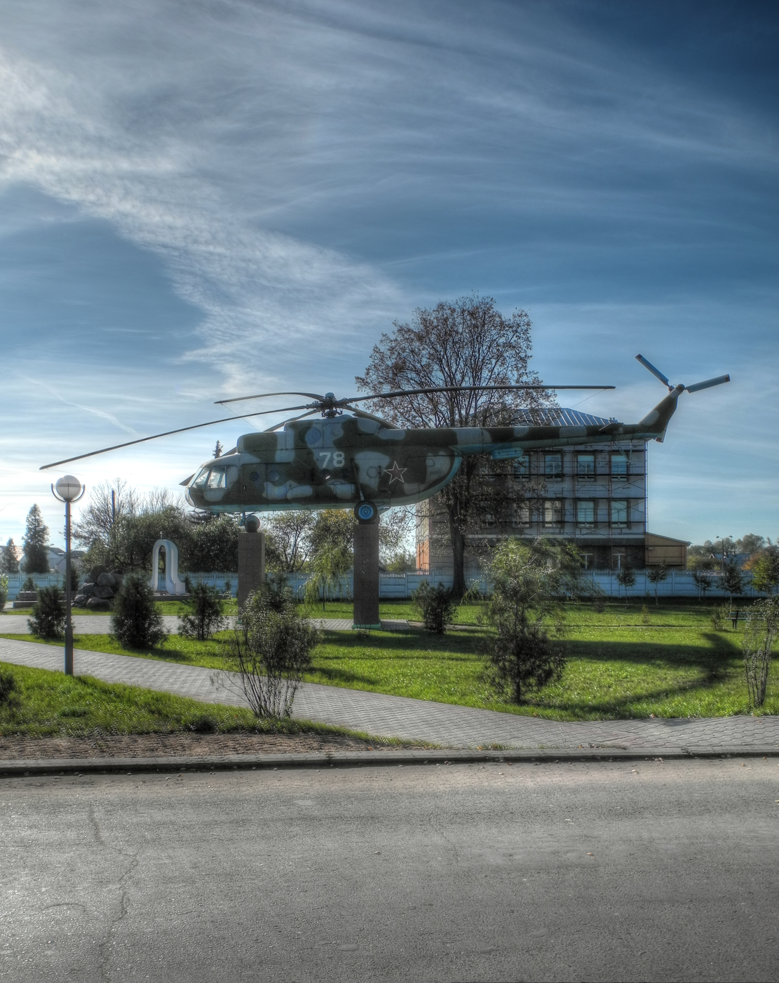 cantonment